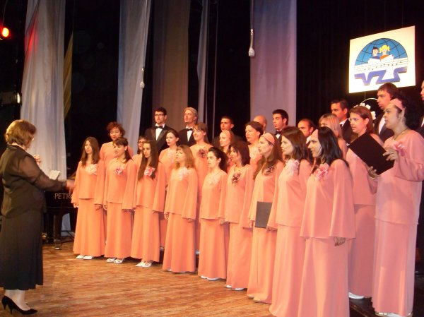 International choir festival